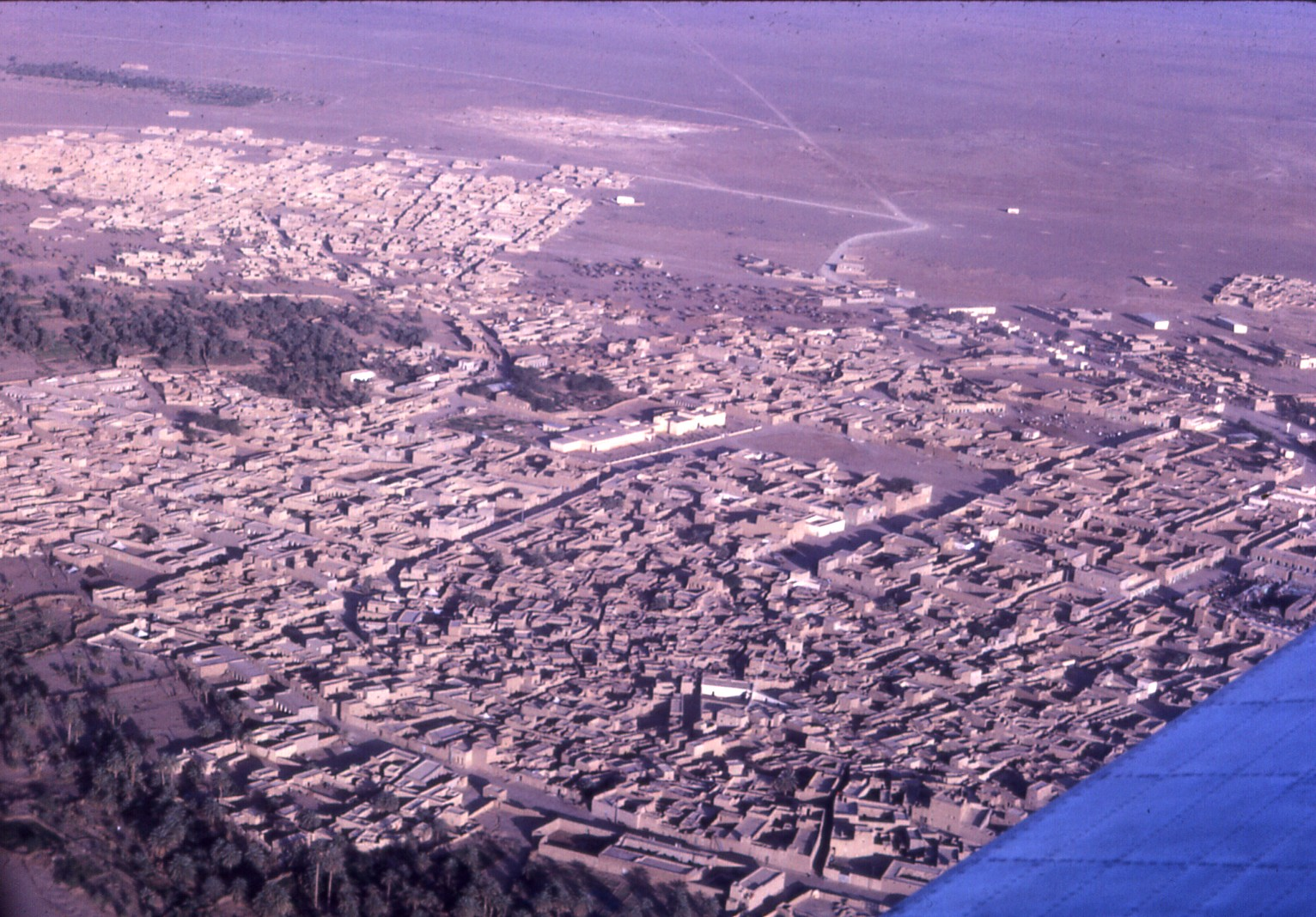 Aerial view of Atar, Mauritania. Photo taken in December, 1967